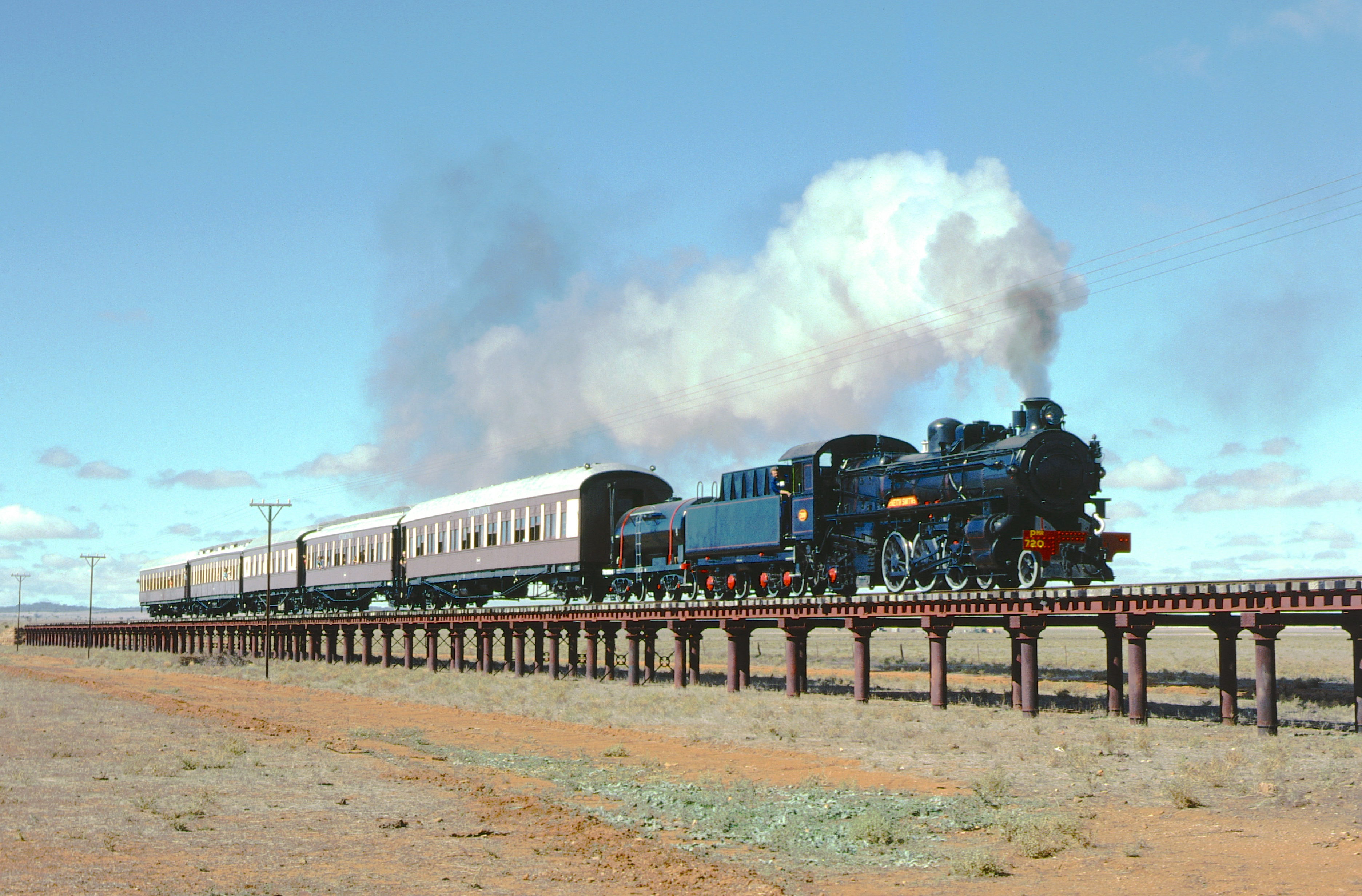 Steamtown Peterborough Railway Preservation Society train passing over the floodway bridge on the former South Australian Railways narrow-gauge line 1.9 km / 1.2 mi SSE from Black Rock, South Australia (20 km NW of Peterborough). The train comprises ex-Western Australian Government Railways Pmr class locomotive no. 720, Keith Smith, and former carriages of the Commonwealth Railways.